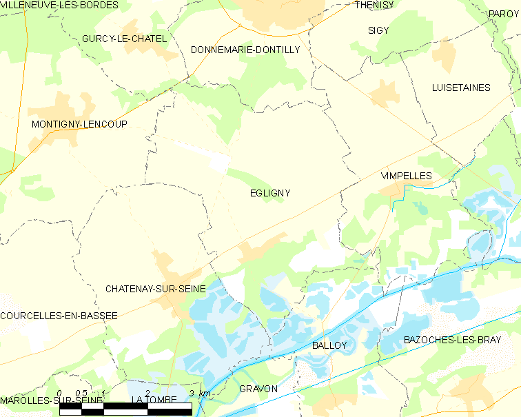 Map of French municipality Égligny